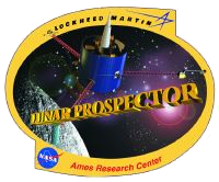 Official insignia of the Lunar Prospector mission.